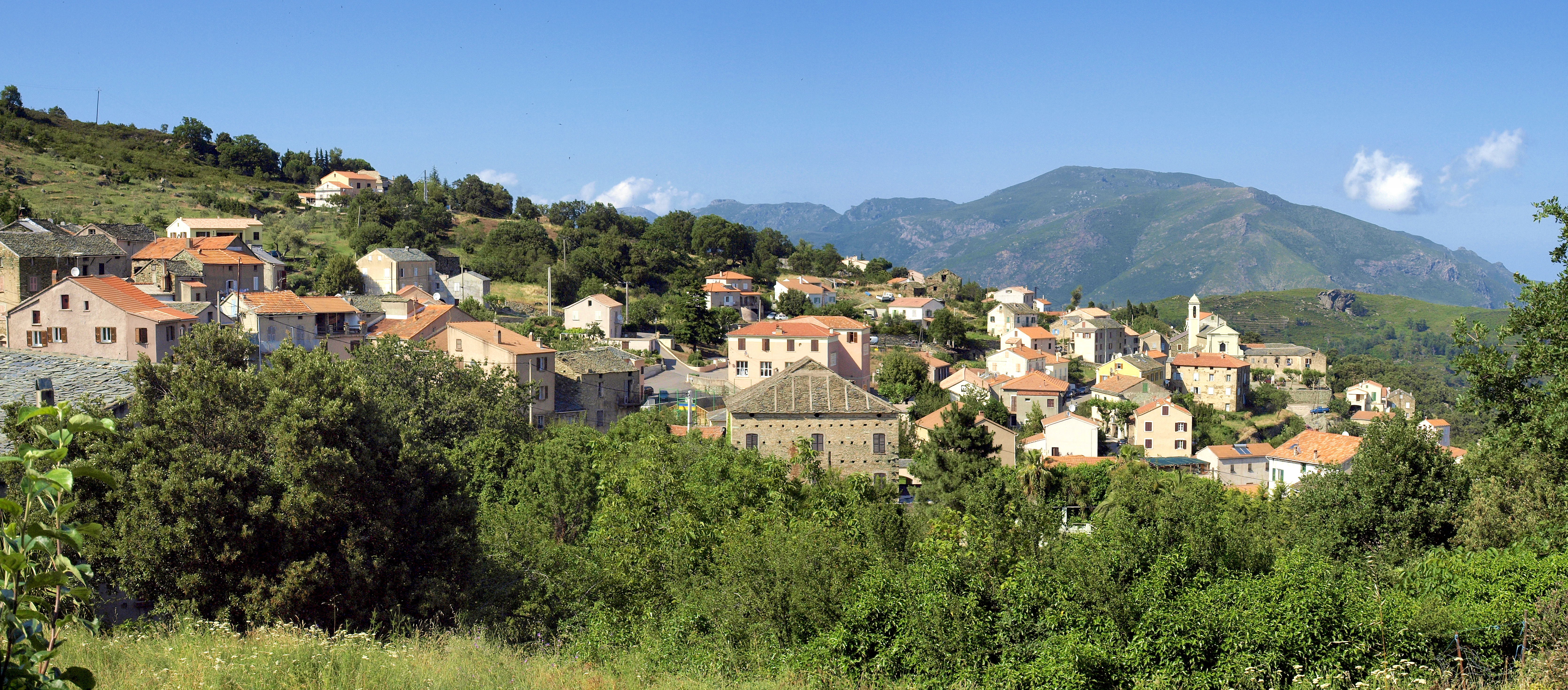 Murato (Corsica) - View of village